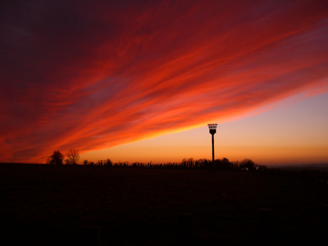 Westbury White Horse Millennium Torch The Millennium Torch at dusk, taken on Christmas day 2007.